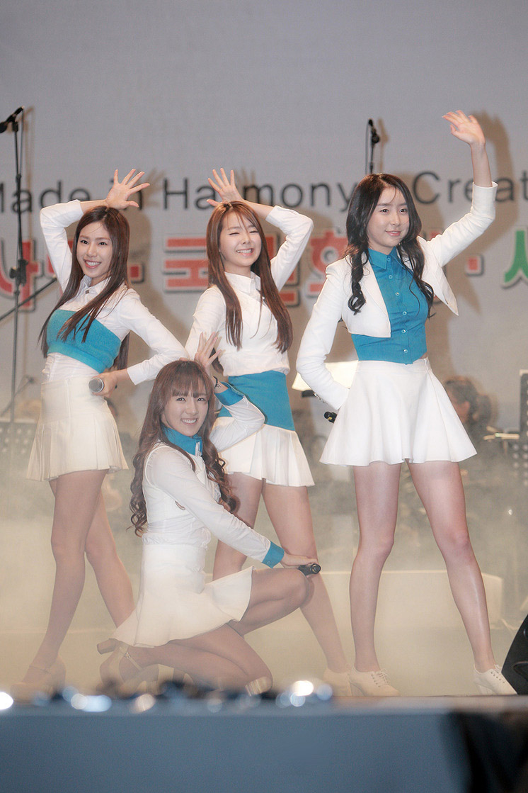 Stellar performed at the War Memorial of Korea on 13 October 2012.